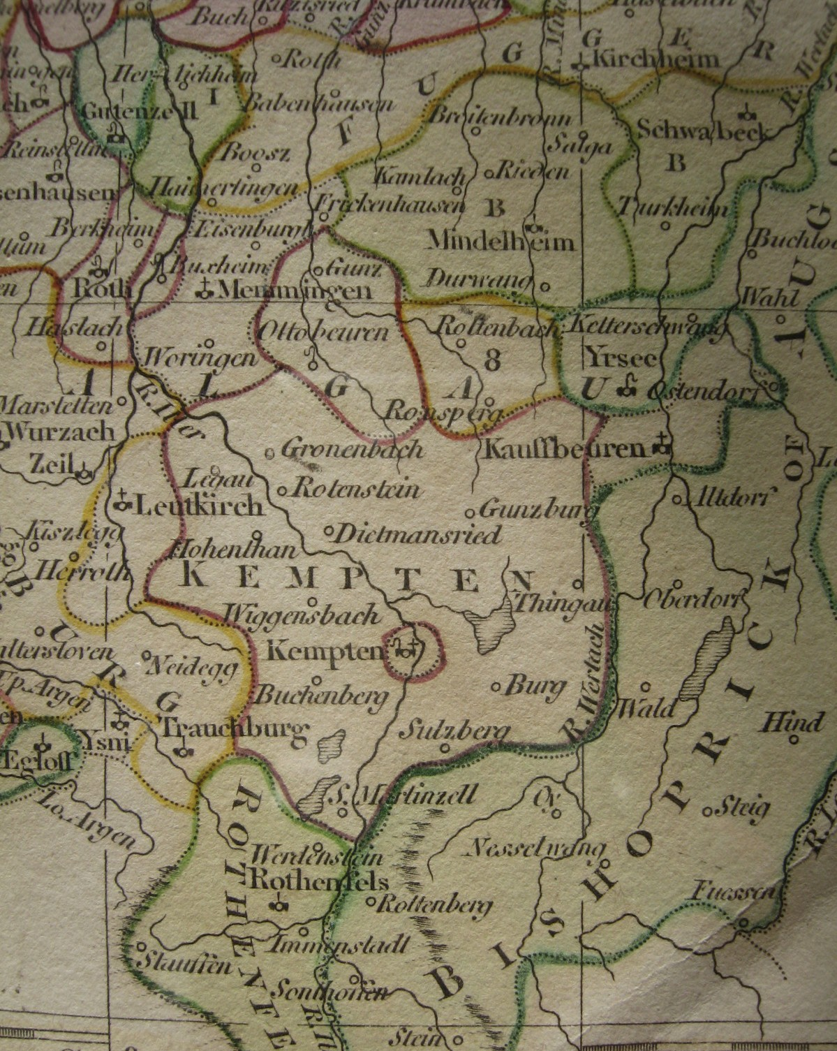 Kempten was both a tiny Free Imperial City and an Imperial Abbey, whose territory extended well beyond the city limits. Since both entities enjoyed imperial immediacy (Reichsunmittelbarkeit), they were de facto sovereign states, independent of each other and other German states. City and abbey, having their seat in the same town, coexisted uneasily for centuries, the more so that the Free City had been officially Protestant since 1527. Cropped from a map of the Circle of Swabia published by R. Wilkinson in 1802.